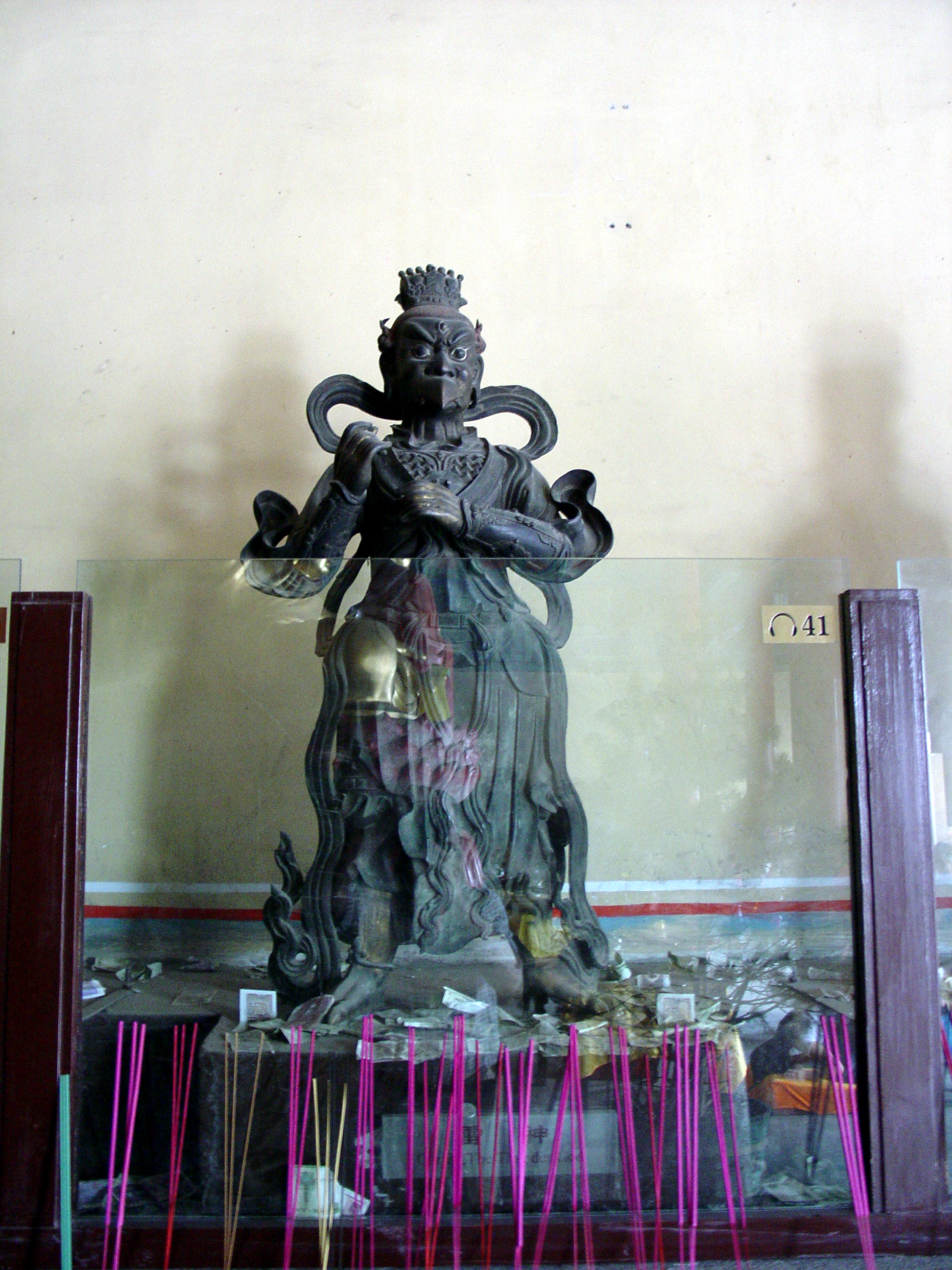 Guardian. Bai Ta Si (Miaoying Temple), Beijing